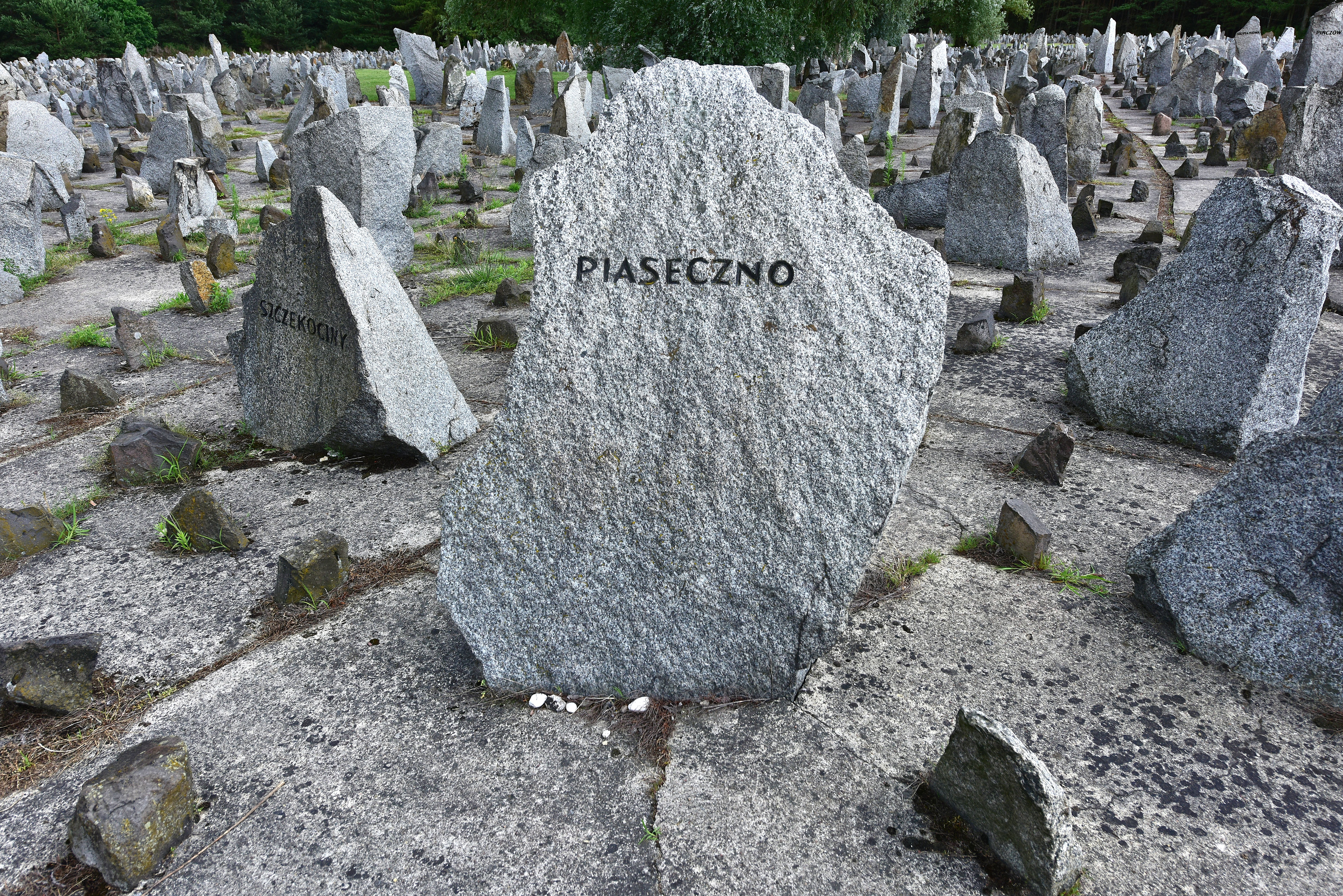 Treblinka death camp memorial. A stone commemorating the murdered Jews from Piaseczno